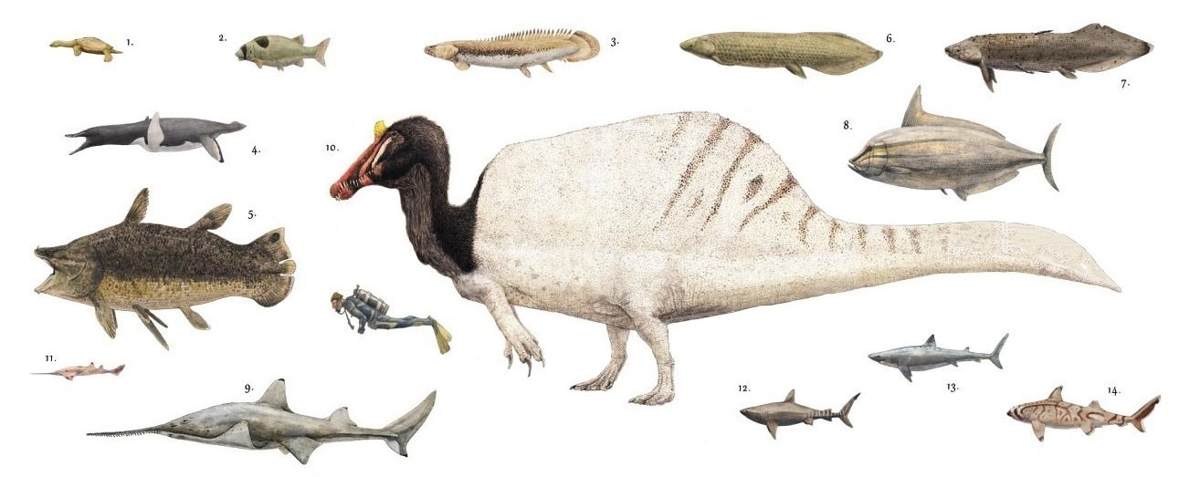 A scale chart comparing Spinosaurus aegyptiacus with various contemporaneous taxa. S. aegyptiacus formed one of the main connections allowing nutrient flow between the terrestrial & aquatic biomes. Apertotemporalis baharijensis Lepidotes sp. Bawitius bartheli Polycotylidae incertae sedis Mawsonia libyca Neoceratodus africanus Retodus tuberculatus Paranogmius doederleini Onchopristis numidus Spinosaurus aegyptiacus Schizorhiza stromeri Squalicorax baharijensis Cretolamna appendiculata Asteracanthus aegyptiacus